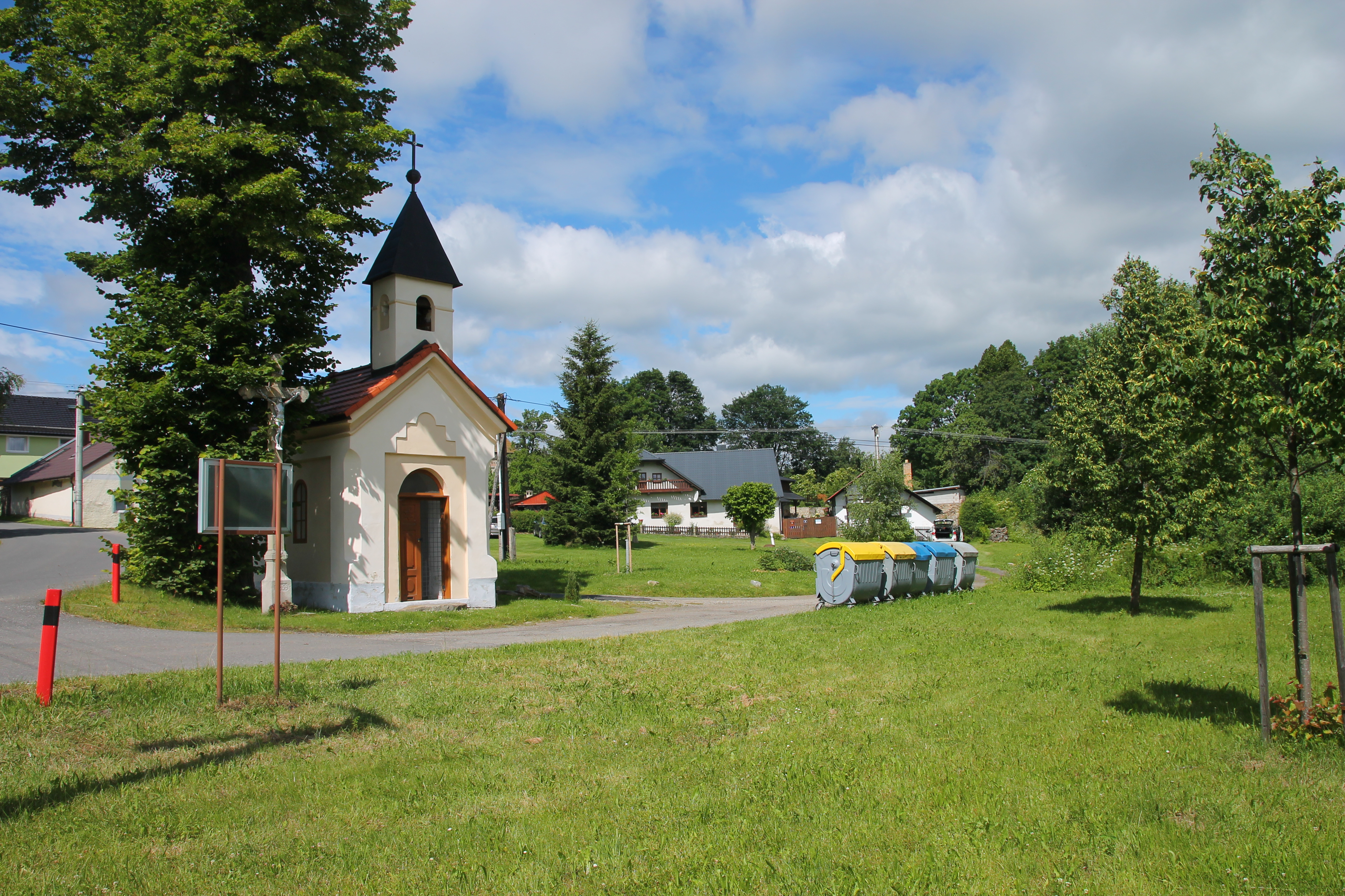 Cejsice, Vimperk